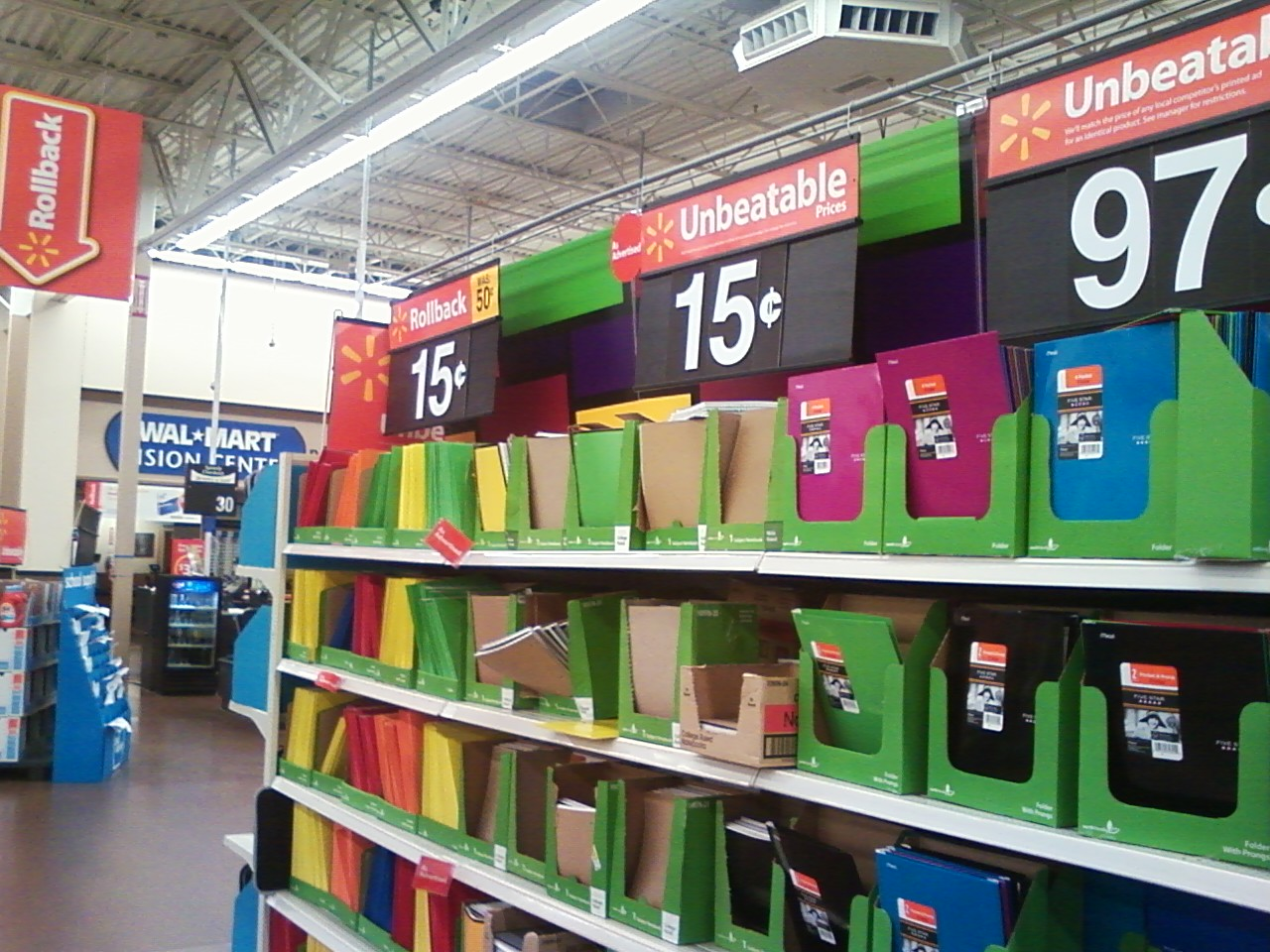 Portrays "unbeatable" and "rollback" prices on folders and spiral notebooks at a Walmart. Their price tags are labeled as follows: Was 50 cents, now 15 cents.